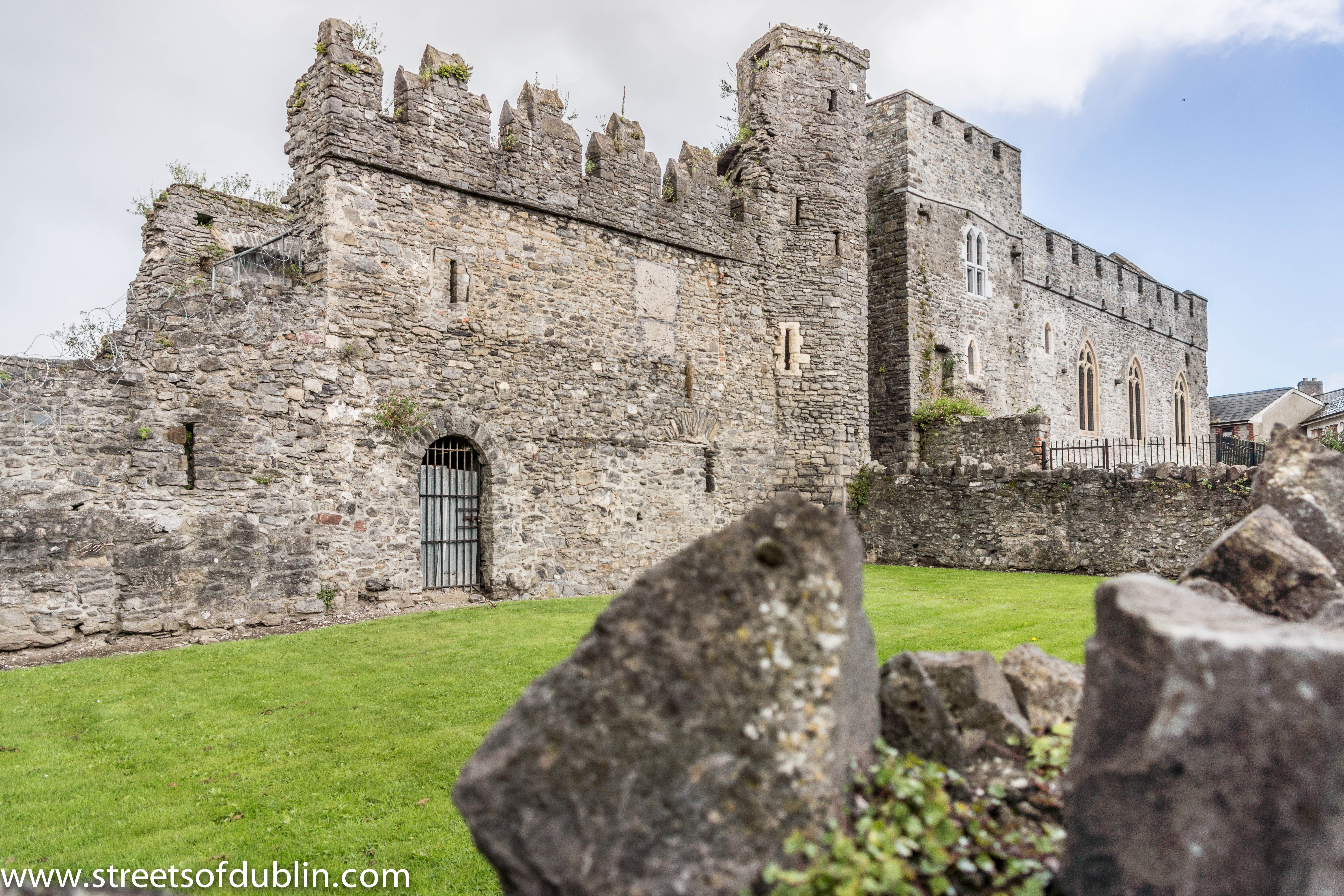 Swords Castle (Near Dublin Airport)